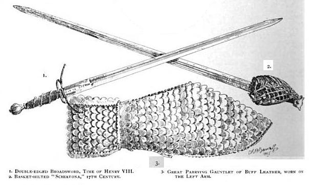 Illustration of broadswords.